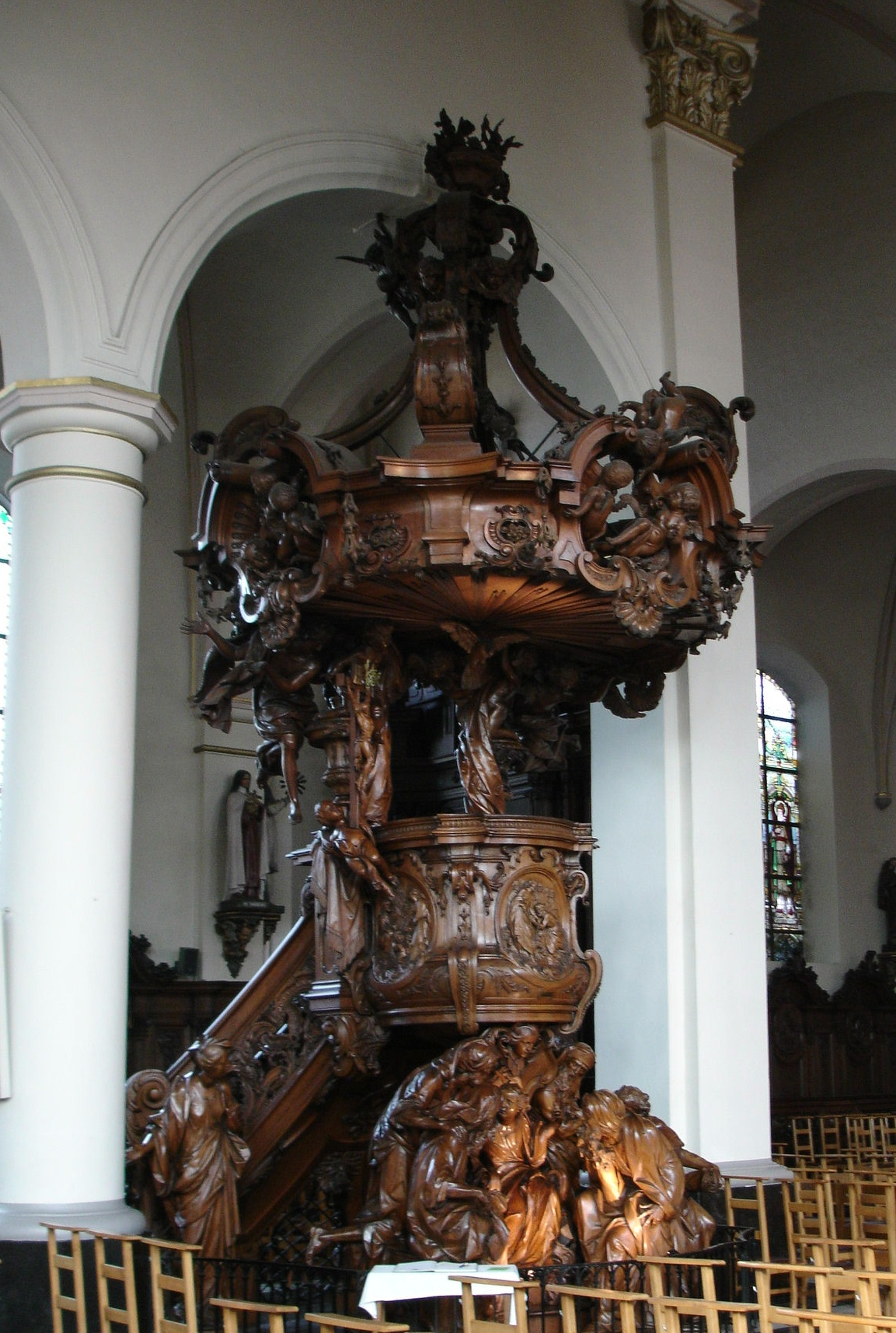 own work